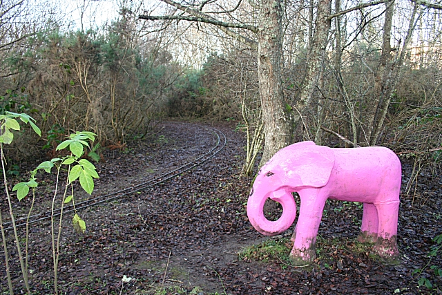 Pink Elephant No, it's not a festive hallucination - it's a feature alongside a children's railway in Whin Park.